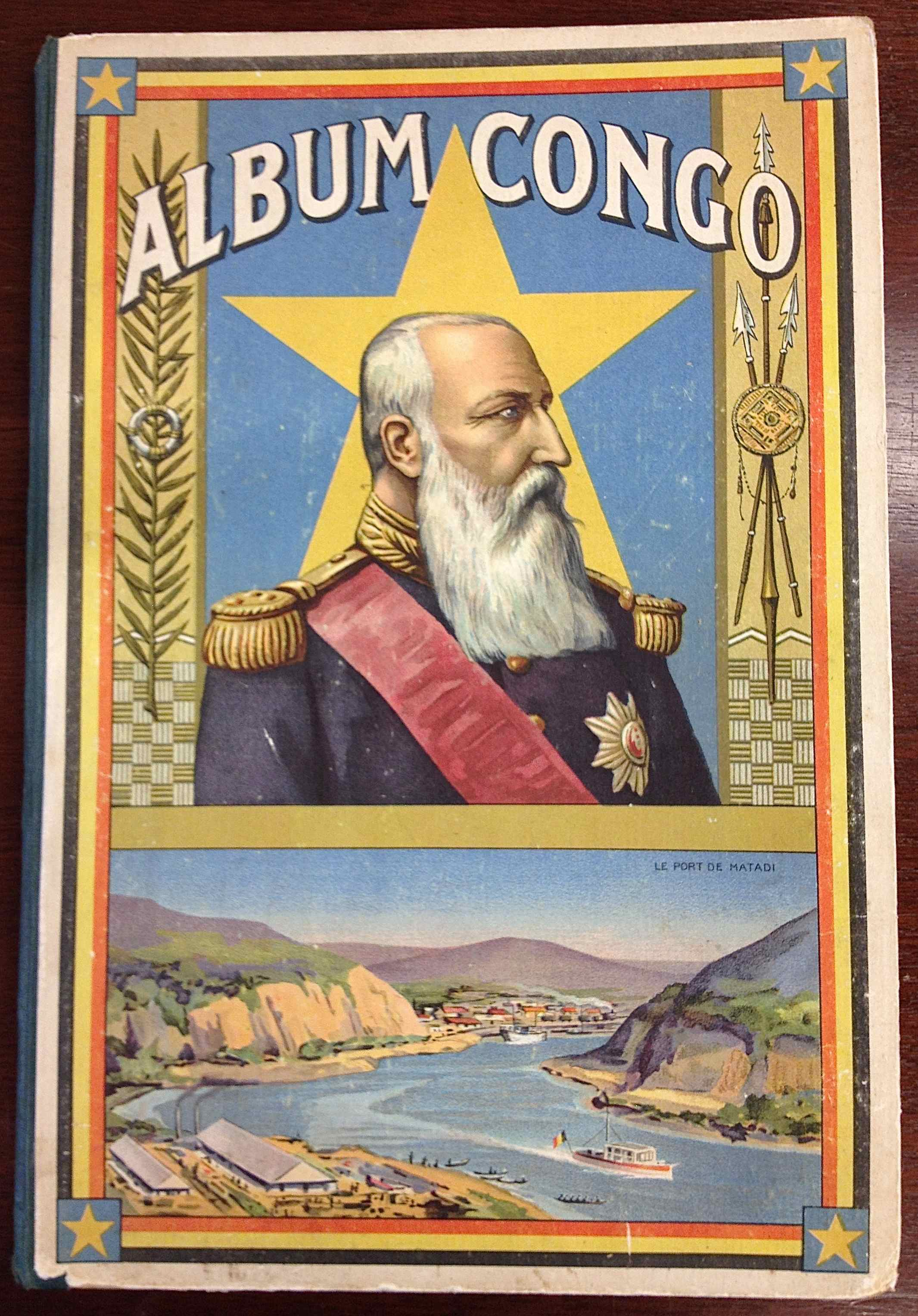 Album Congo - Cover of trading cards from the Congo